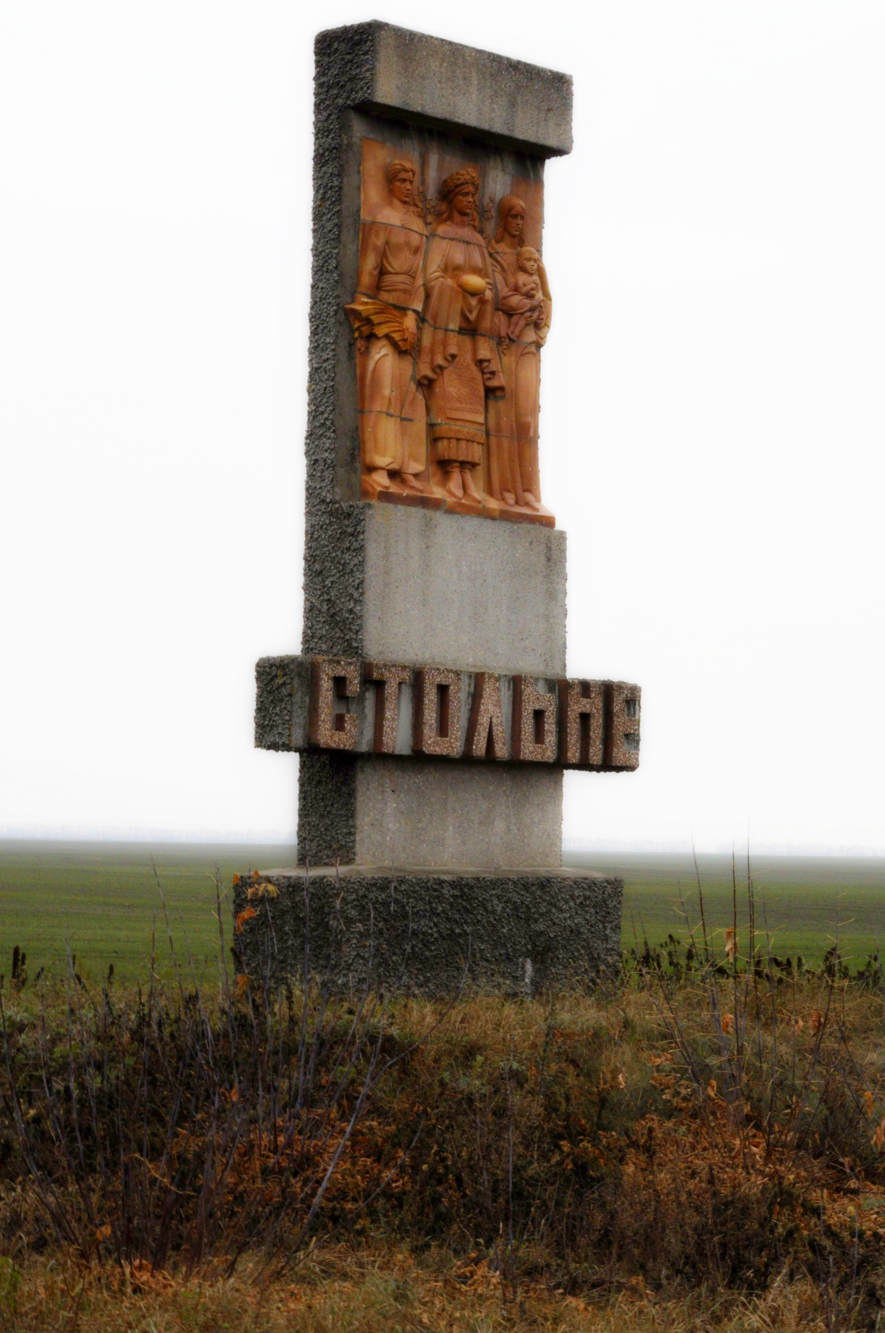 v. Stol'ne, Mena Raion, Chernihiv Oblast, Ukraine